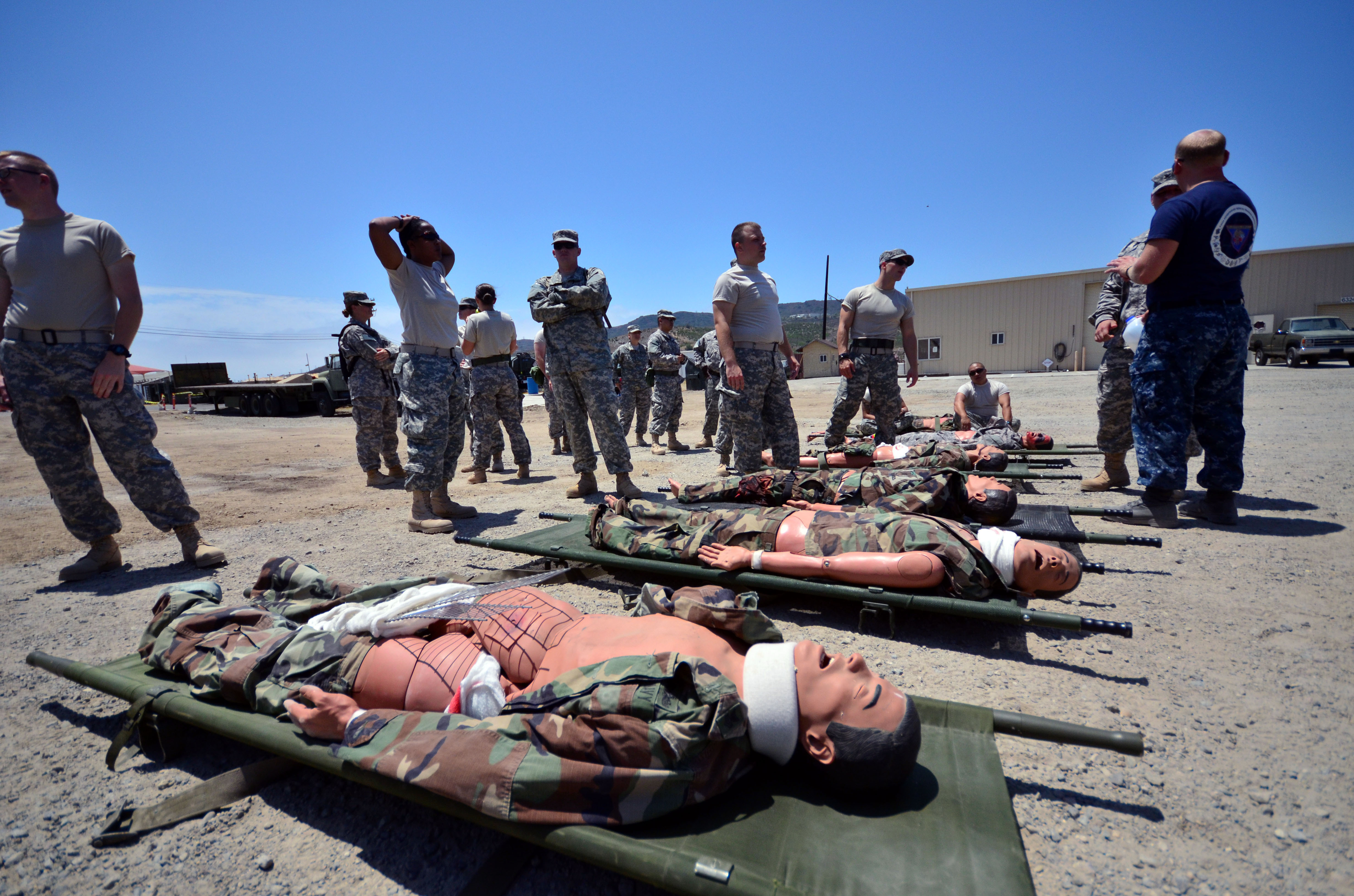 Nearly 200 enlisted and commissioned Navy medical professionals participate in stretcher bearer exercises during the Naval Expeditionary Medical Institute (NEMTI) Kandahar Role 3 course at Camp Pendleton, Calif. The two-week course, now in it's second iteration, is designed to provide necessary current professional skills training before the participants in the course deploy to Kandahar's Role 3 Hospital and other forward operating base medical facilities. (U.S. Navy photo by Mass Communication Specialist 1st Class Bruce Cummins/Released).